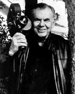 Russ Meyer.